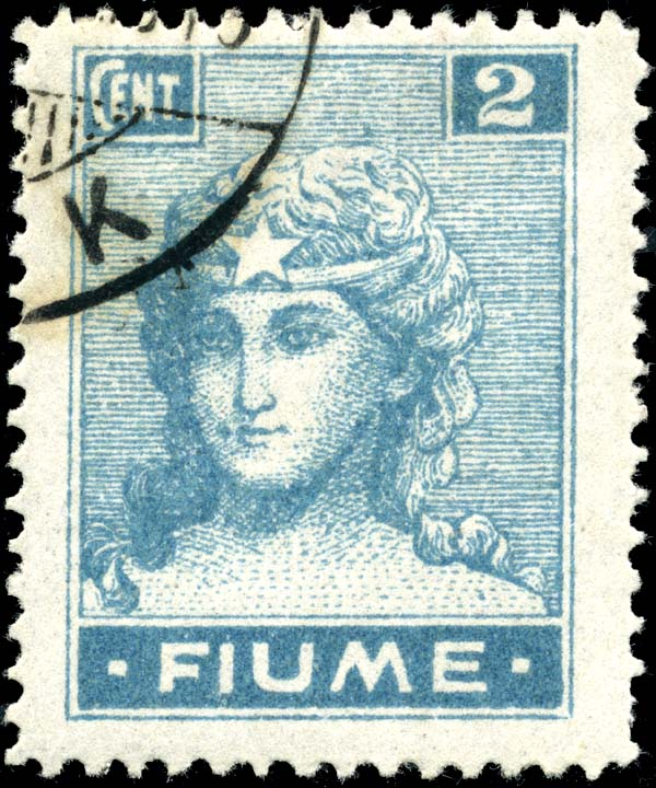 Fiume 2-centime stamp of 1919